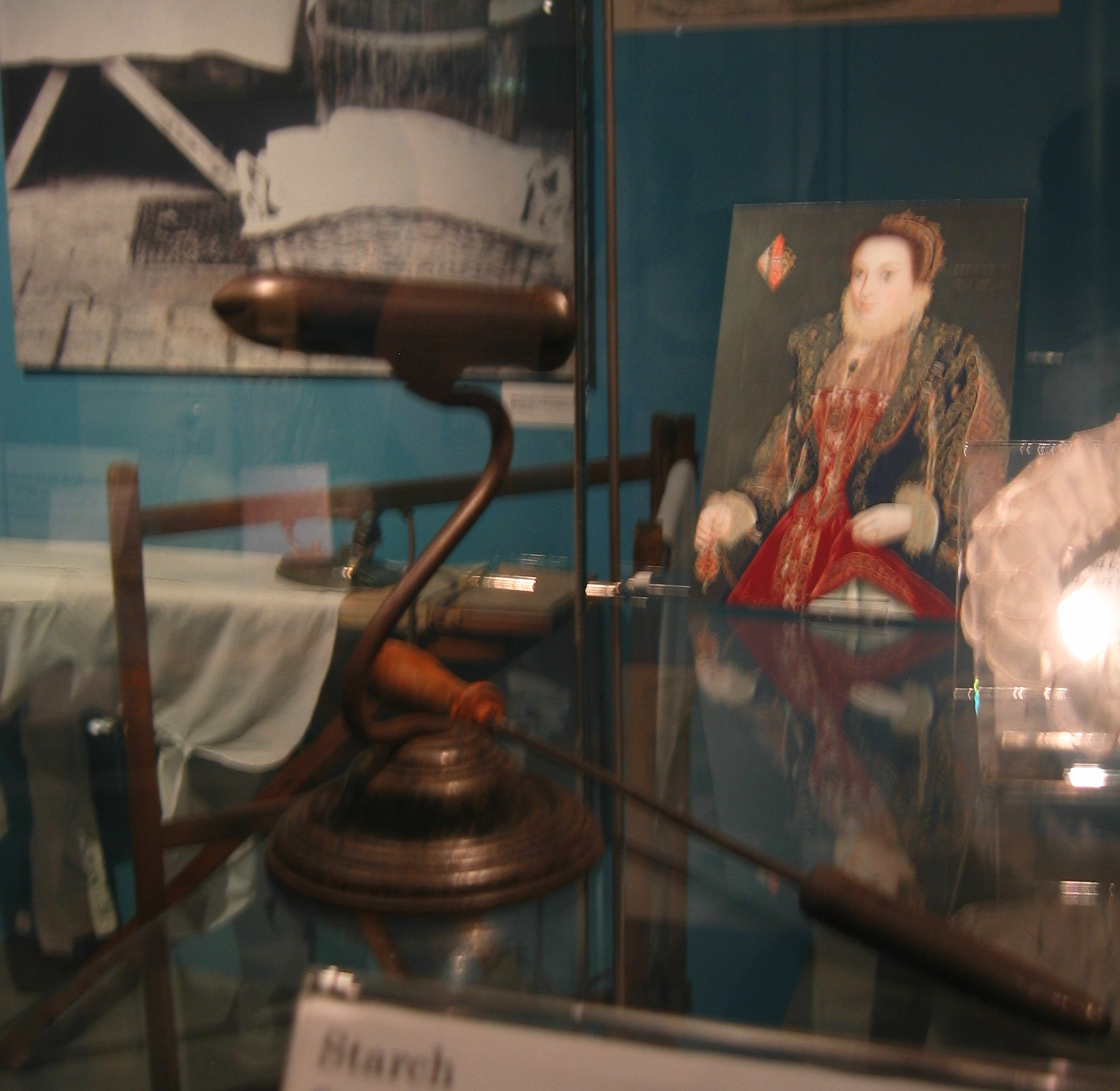 Tally iron, or goffering iron, for ironing lace and making ruff collars. Long rod to the right, curved stand for the rod to the left. From York Castle Museum.